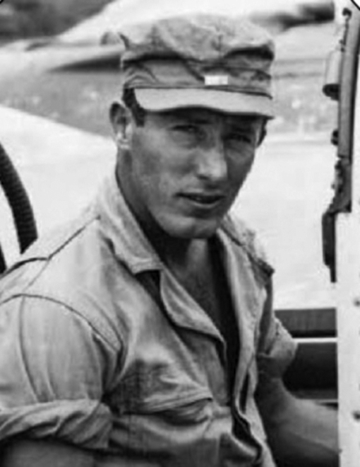 Cyril F. Homer at Morotai, Netherlands East Indies in 1944